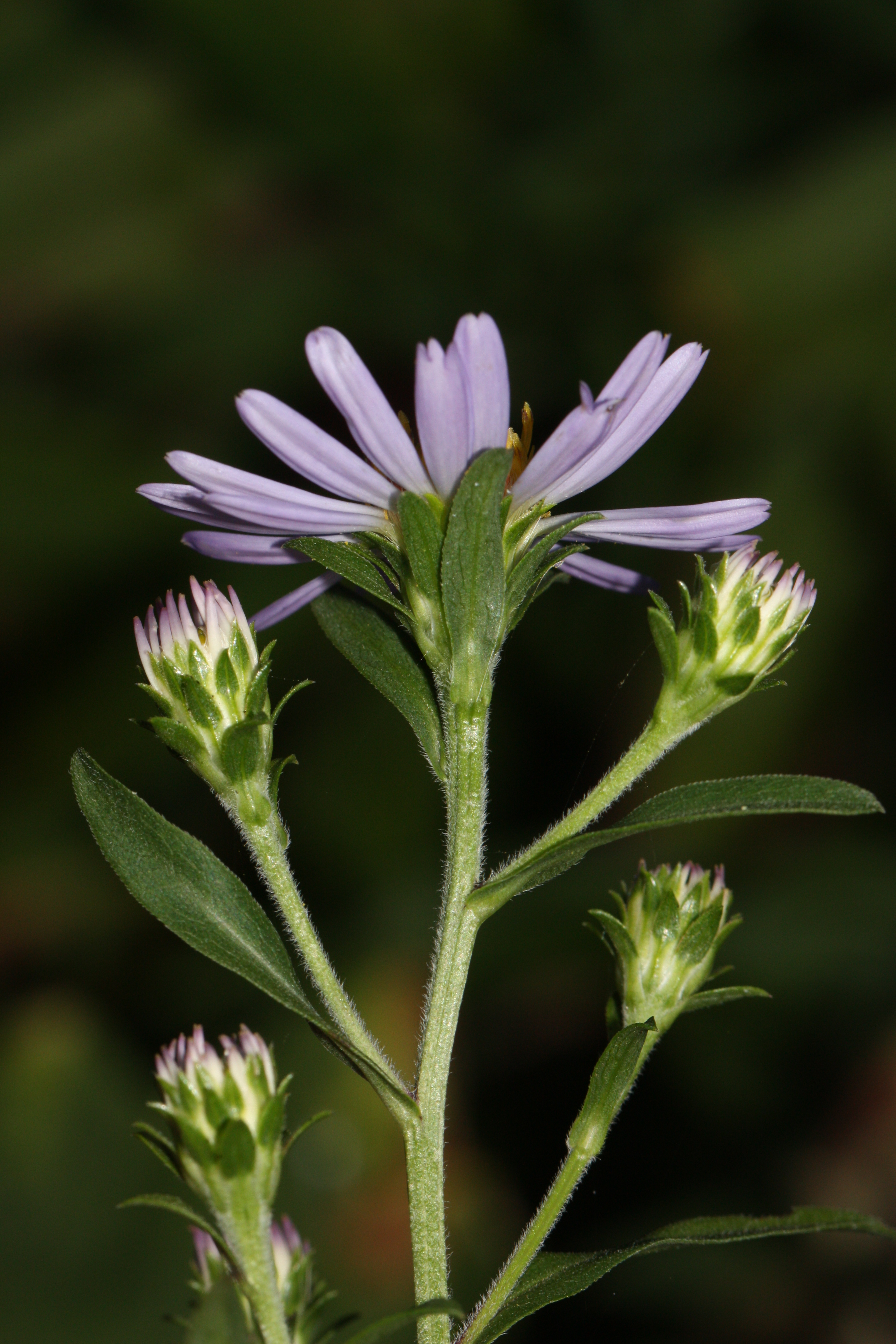 Douglas Aster